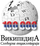 Logo for 100000 articles on Serbian Wikipedia.